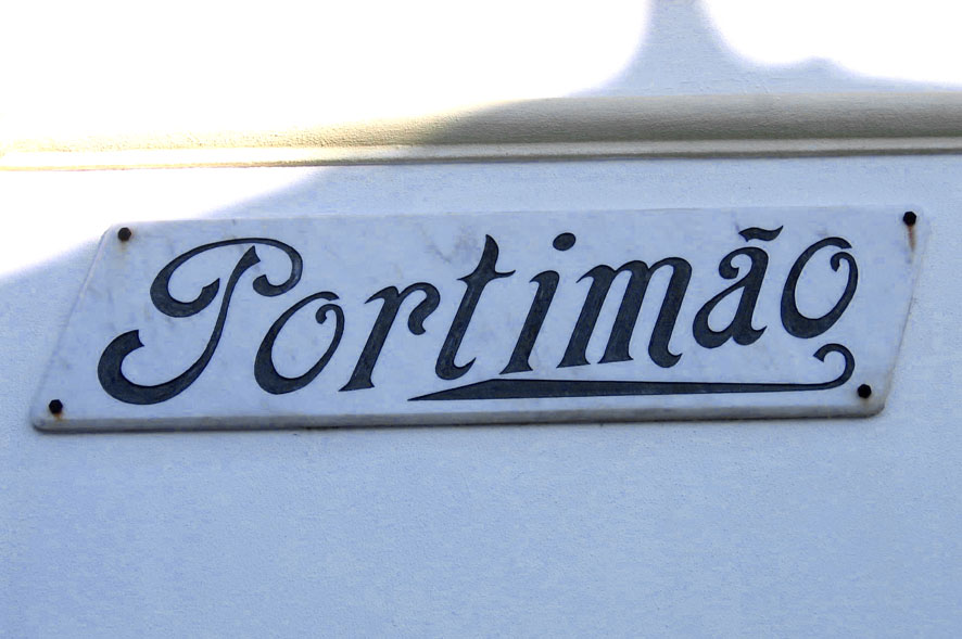 Portimão railwaystation sign.